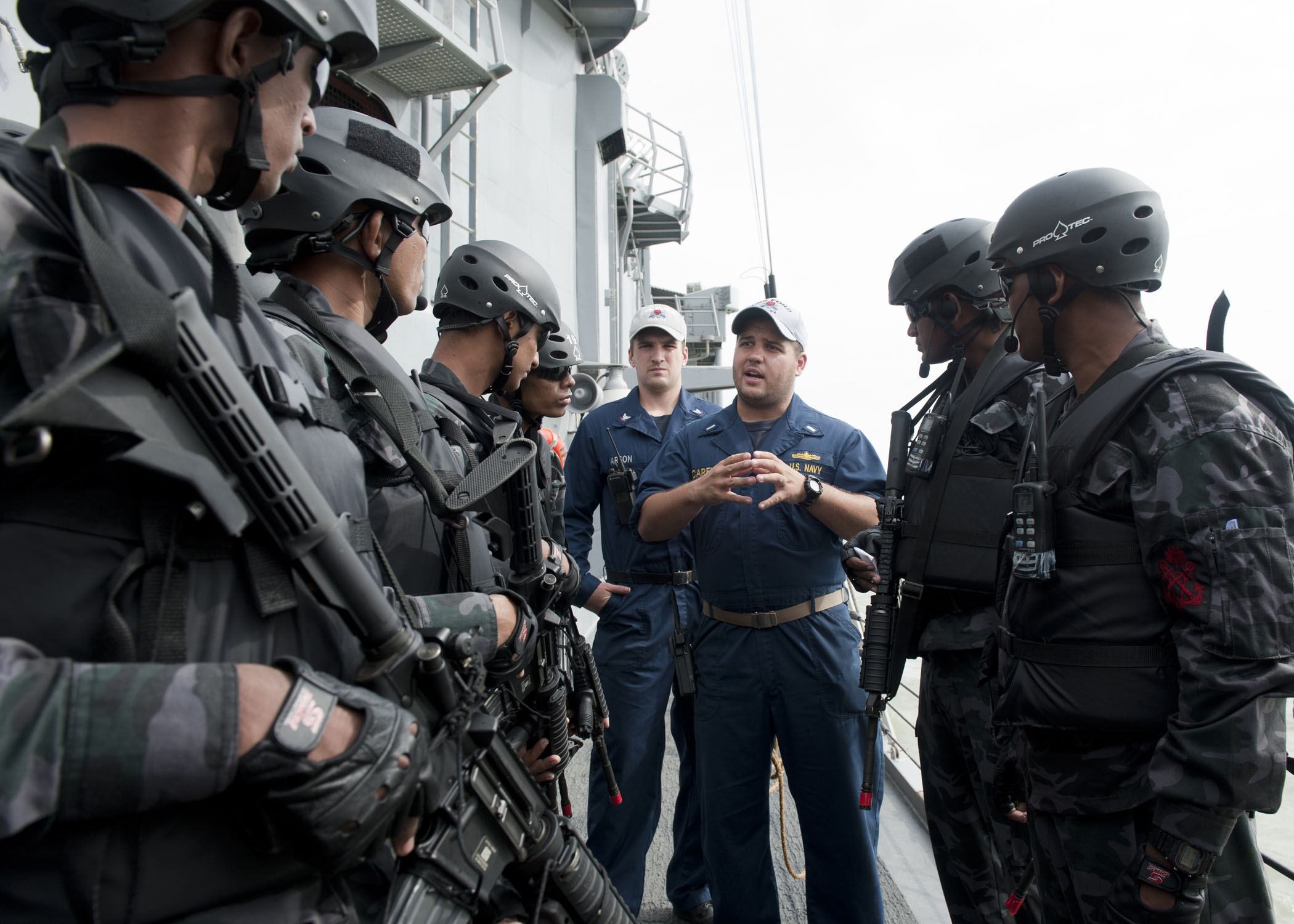 BAY OF BENGAL (Sept. 21, 2011) Lt. j.g. David Zicarelli, assigned to the guided-missile frigate USS Ford (FFG 54), debriefs Bangladesh Navy Special Warfare and Diving Salvage (SWADS) sailors after a visit, board, search and seizure exercise during Cooperation Afloat Readiness and Training (CARAT) Bangladesh 2011. CARAT is a series of bilateral exercises held annually in Southeast Asia to strengthen relationships and enhance force readiness. Bangladesh is participating in this exercise for the first time. (U.S. Navy photo by Mass Communication Specialist 1st Class Lowell Whitman/Released)